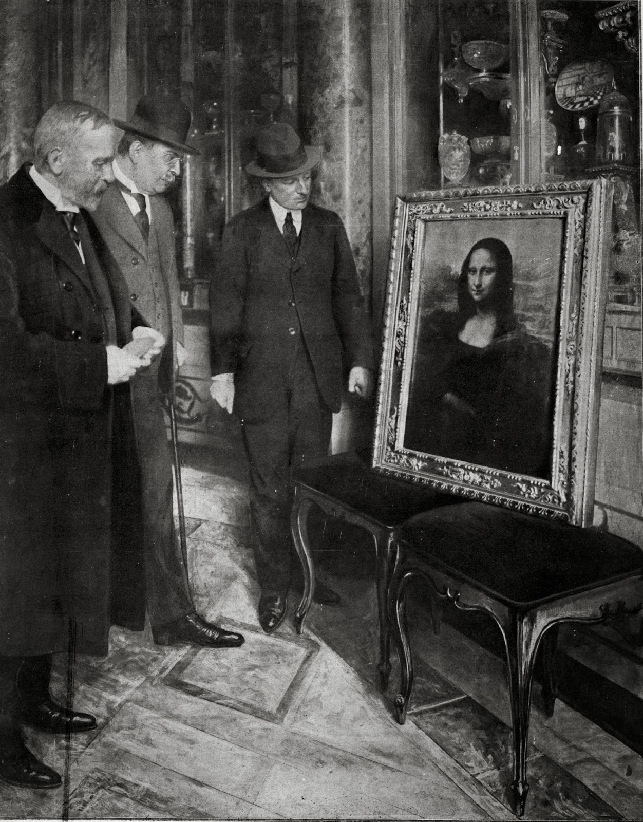 The Mona Lisa on display in the Uffizi Gallery, in Florence (Italy). Museum director Giovanni Poggi (right) inspects the painting. The masterpiece would be latter returned to Museum of Louvre where it had been stolen from.